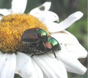 Japanese beetle. Image taken by me, released under GFDL Pollinator 03:11, 24 Jan 2004 (UTC)